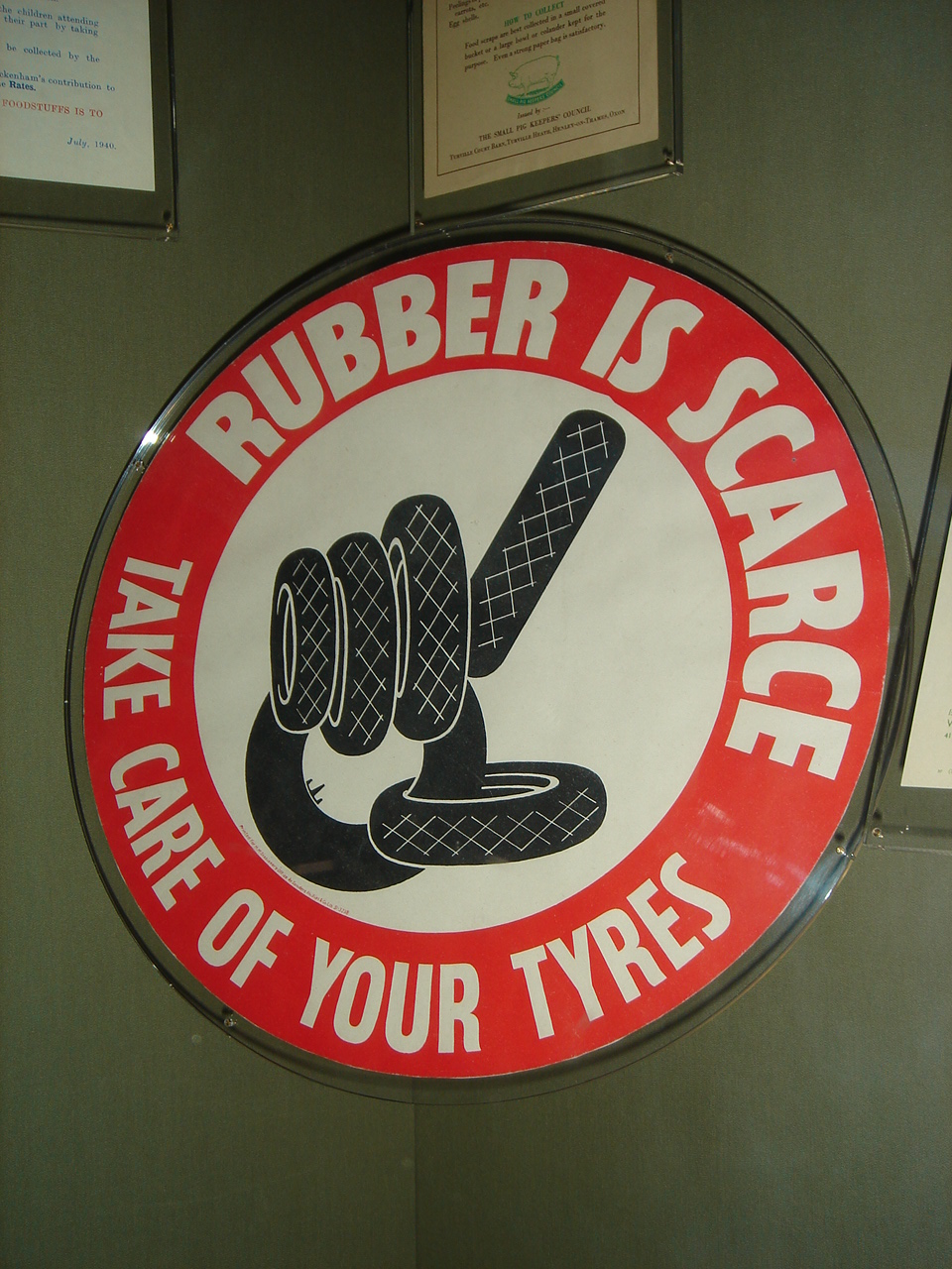 British WW2 poster asking to save rubber. Imperial War Museum, London.